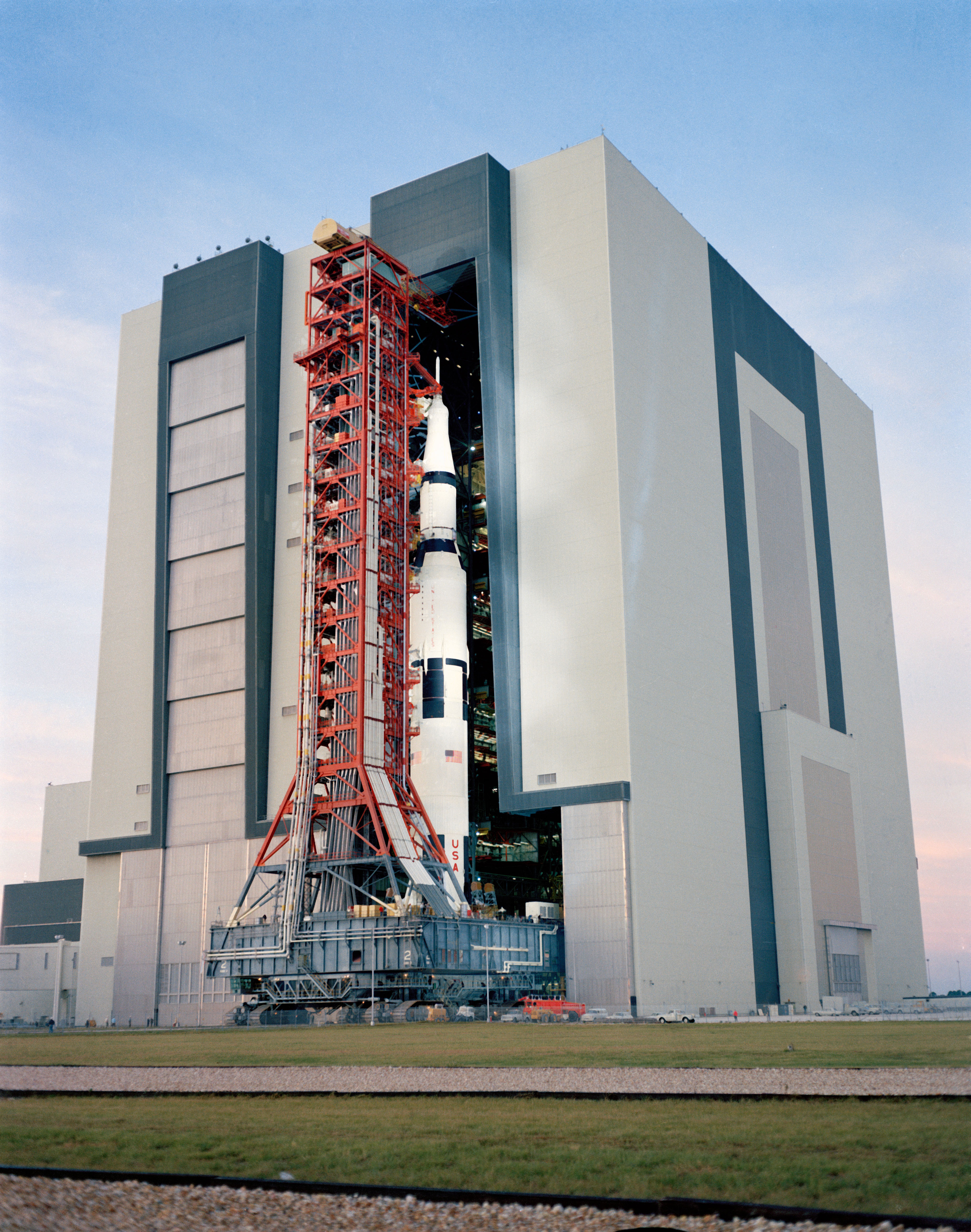 S70-54121 (9 Nov. 1970) --- A ground level view at Launch Complex 39, Kennedy Space Center (KSC), showing the Apollo 14 (Spacecraft 110/Lunar Module 8/Saturn 509) space vehicle leaving the Vehicle Assembly Building (VAB). The Saturn V stack and its mobile launch tower, atop a huge crawler-transporter, were rolled out to Pad A. The Apollo 14 crewmen will be astronauts Alan B. Shepard Jr., commander; Stuart A. Roosa, command module pilot; and Edgar D. Mitchell, lunar module pilot.